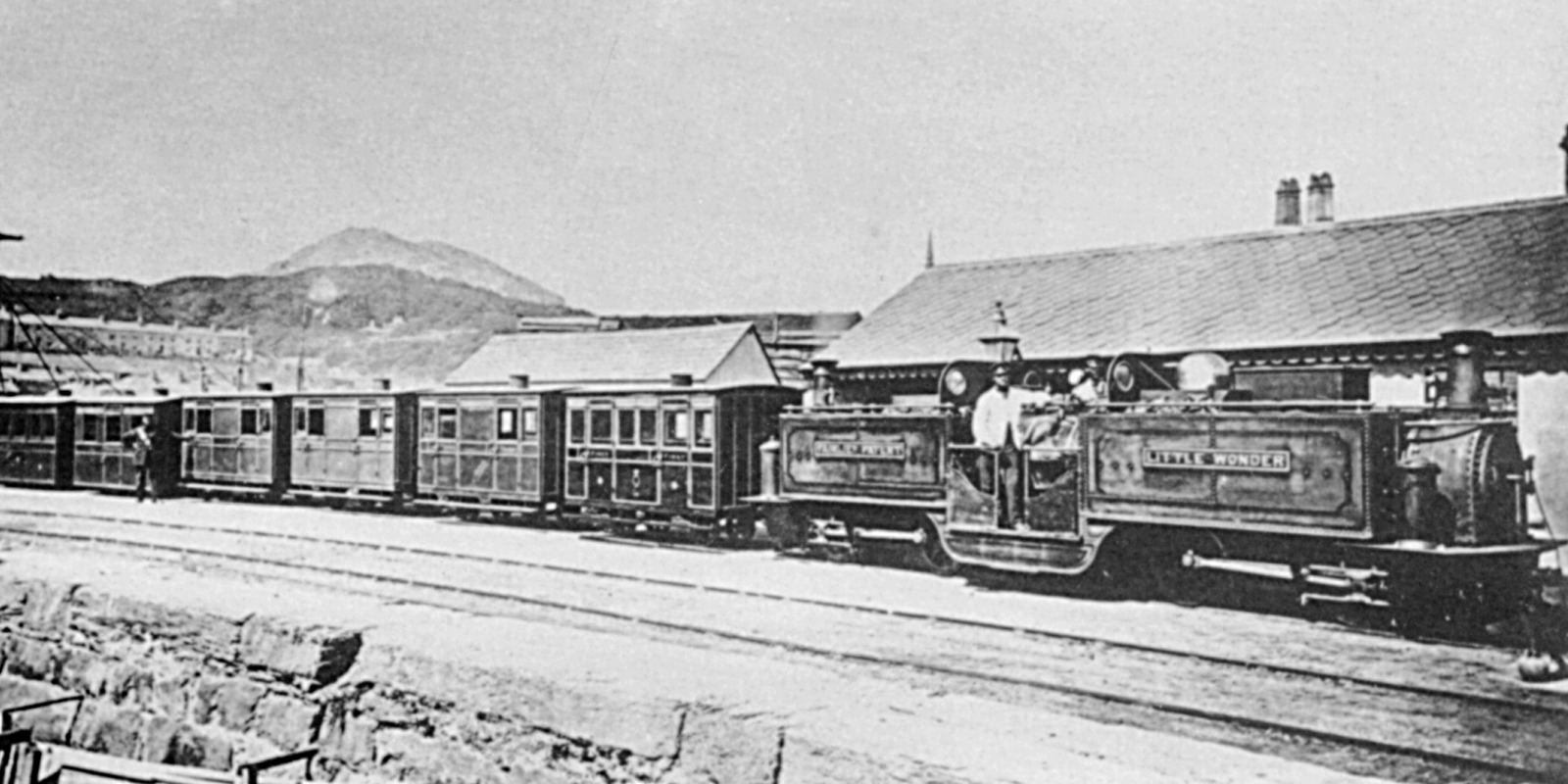 Festiniog Railway Double Fairlie locomotive "Little Wonder" at Porthmadog harbour station